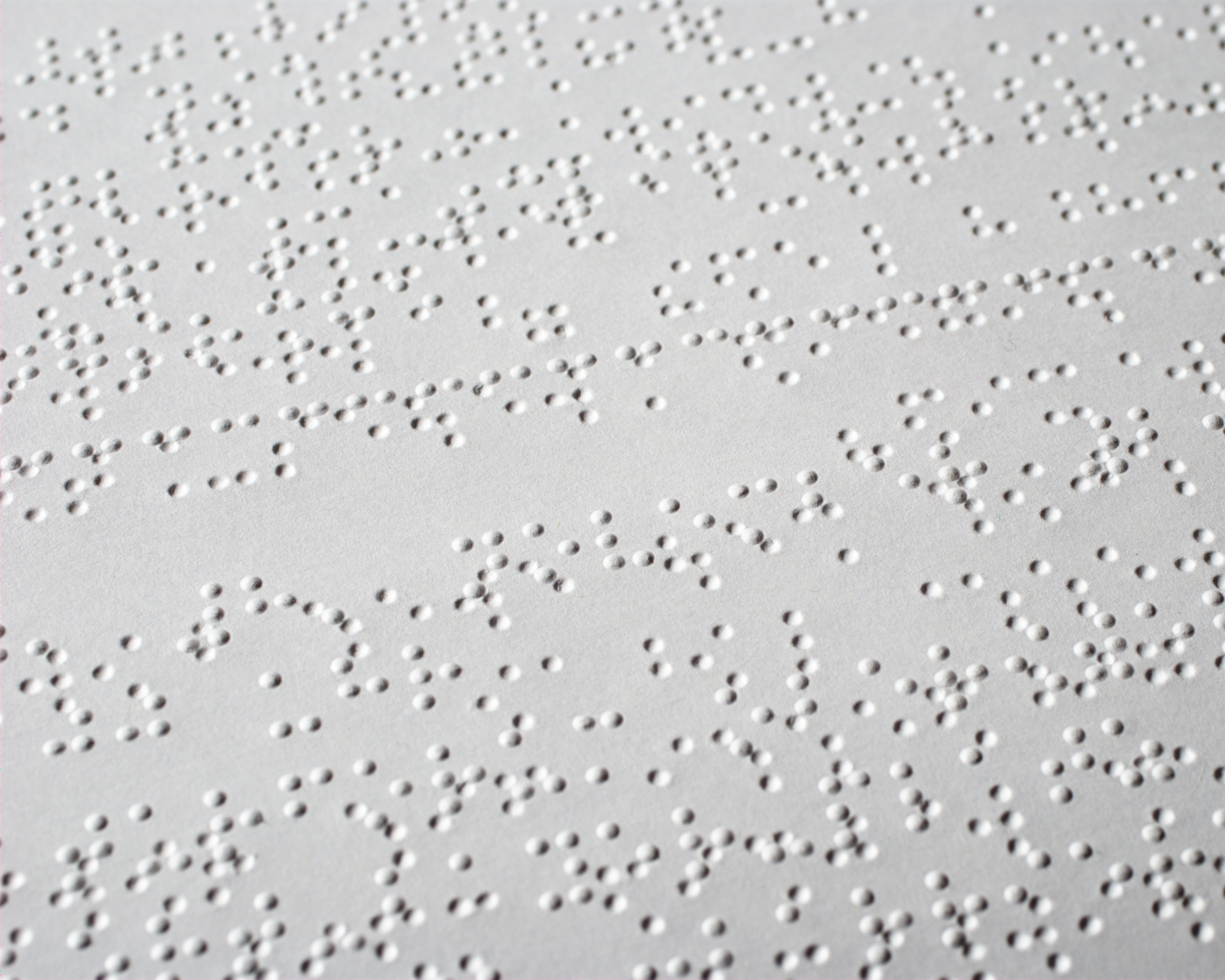 Image of Braille text (double-sided)